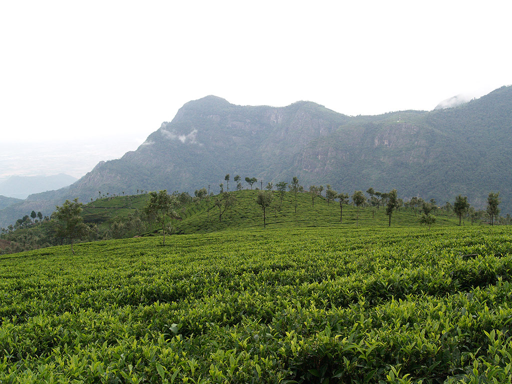 Ooty coffee plantation